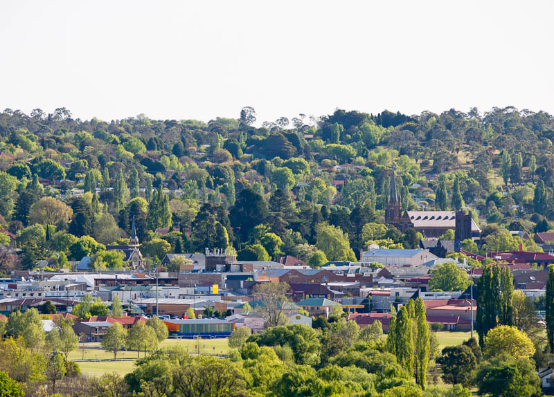 Armidale in spring from North Hill